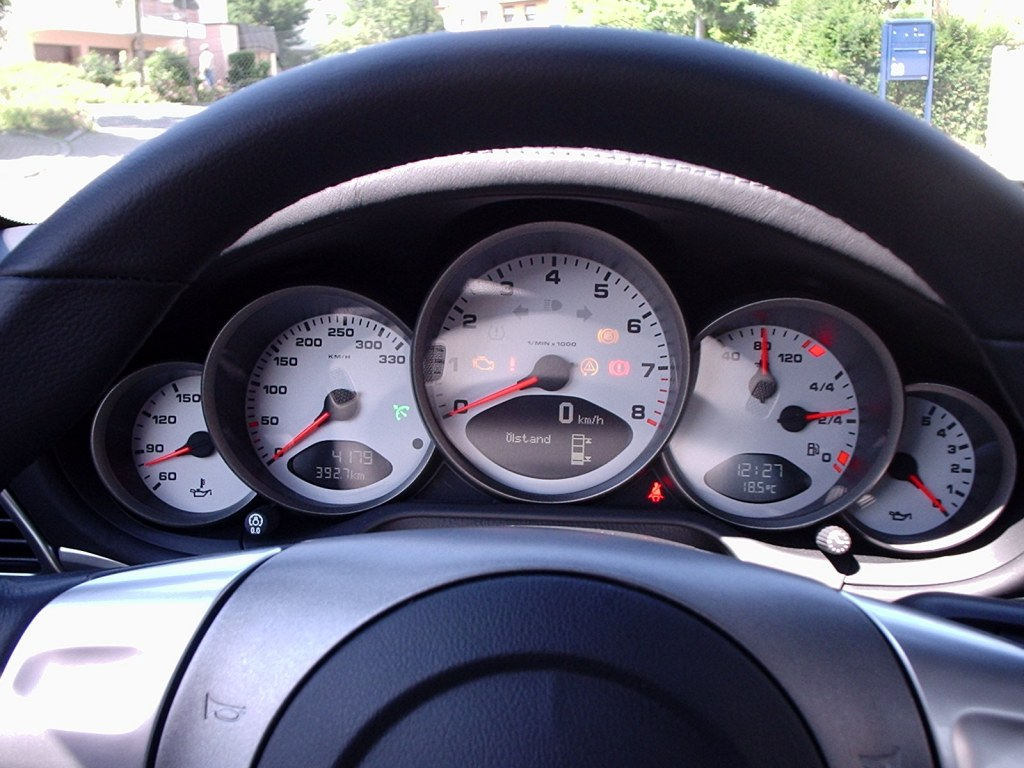 Porsche 911, 997 Model (Carrera S), Picture taken by myself in summer 2005, my own car. :)